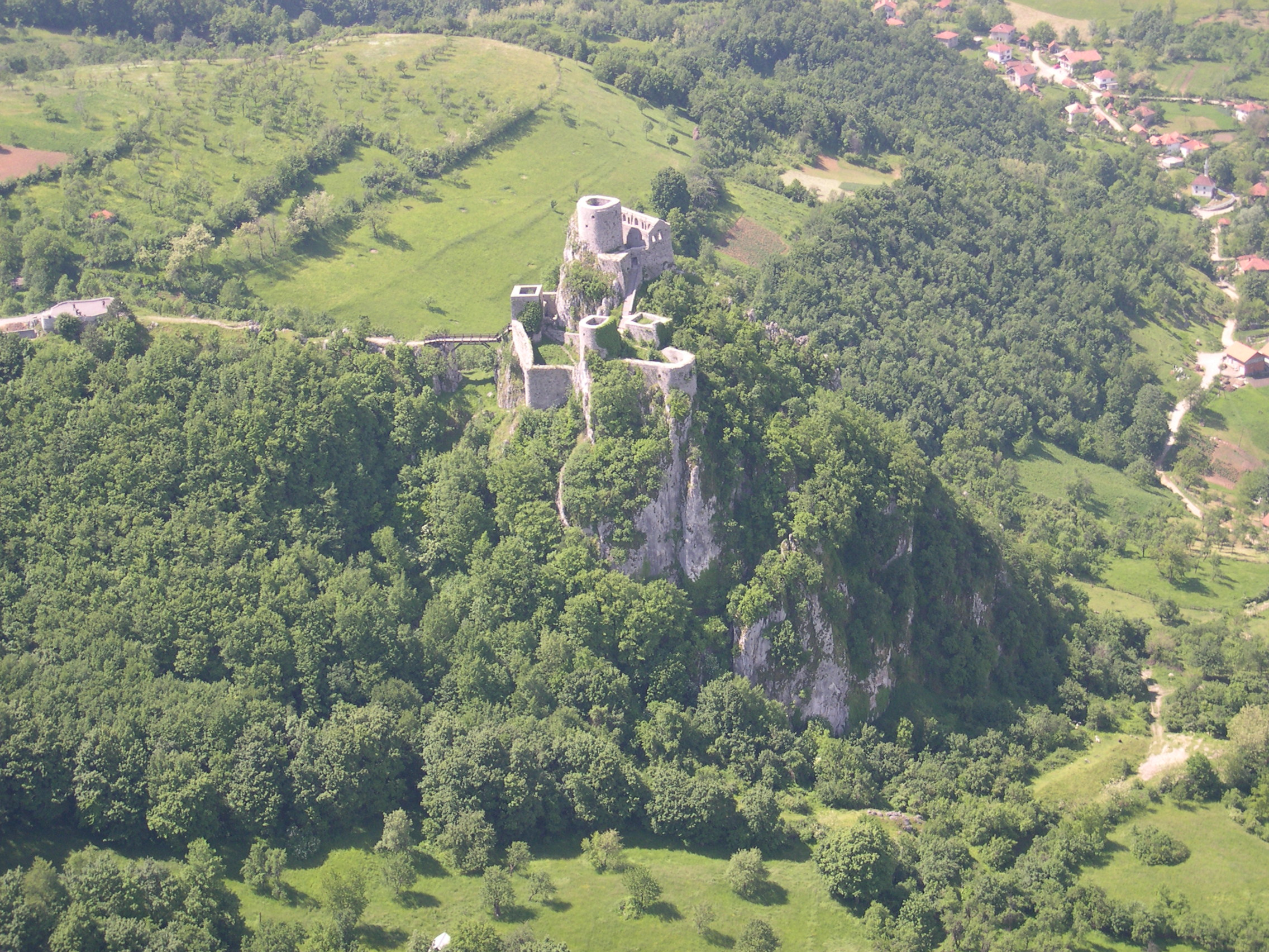 An aerial view of Srebrenik castle.